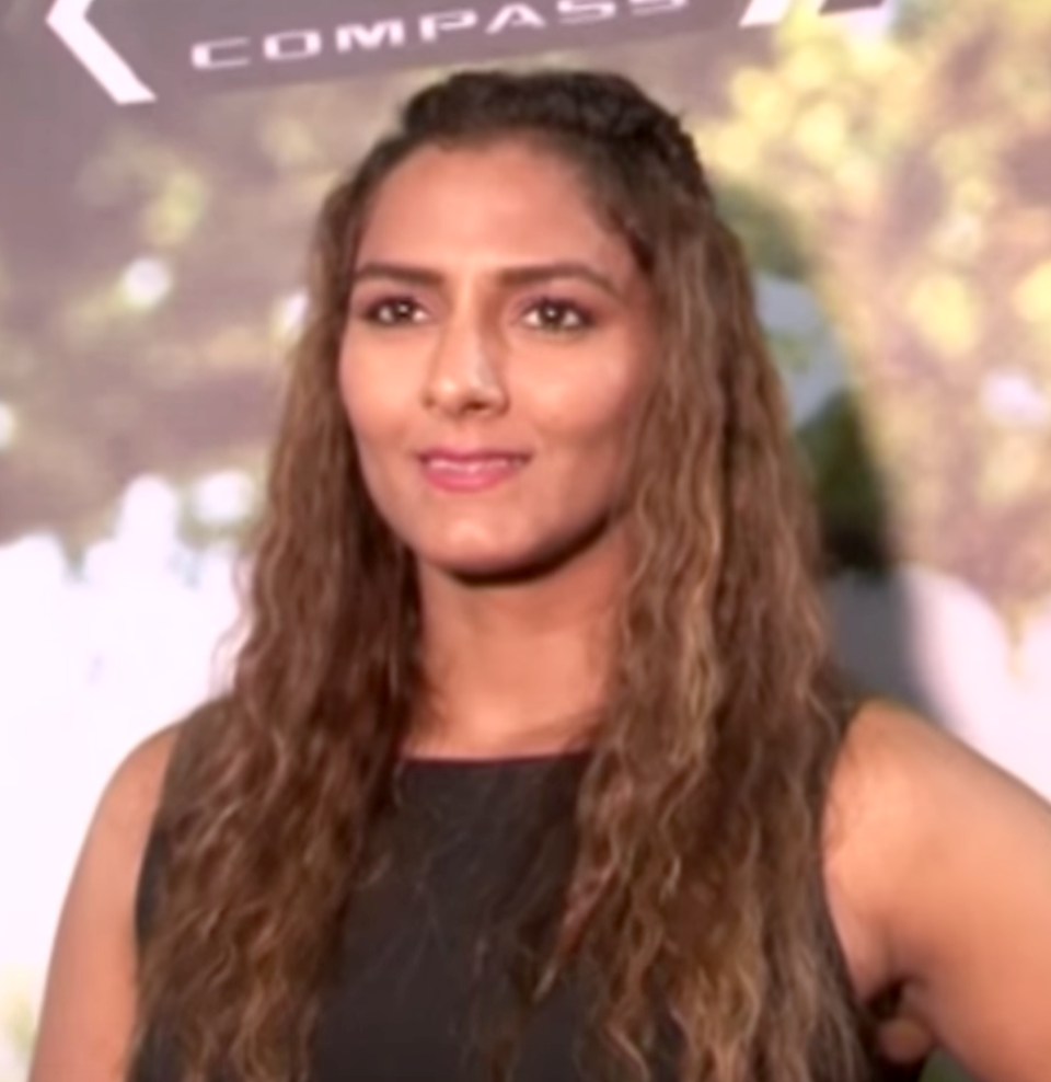 Geeta Phogat At Khatron Ke Khiladi Season 8